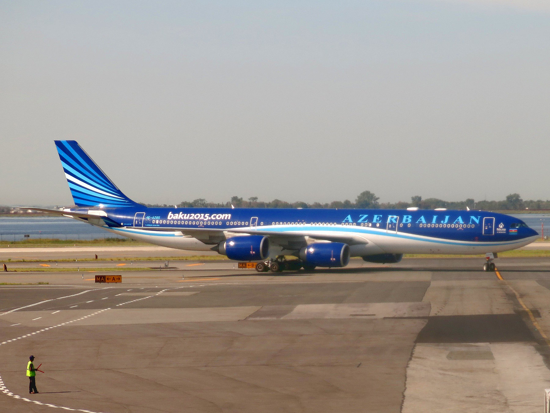 An Azerbaijan Airlines A340-500 is taxiing into Terminal 1 at JFK Airport after arriving from Baku. On the aft fuselage and on the nose aft of the cockpit windows are advertisements and logos for the 2015 European Games which were held in Baku.